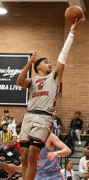 Kenyon Martin Jr working on his game at The Drew